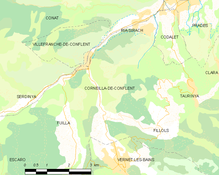 Map of French municipality